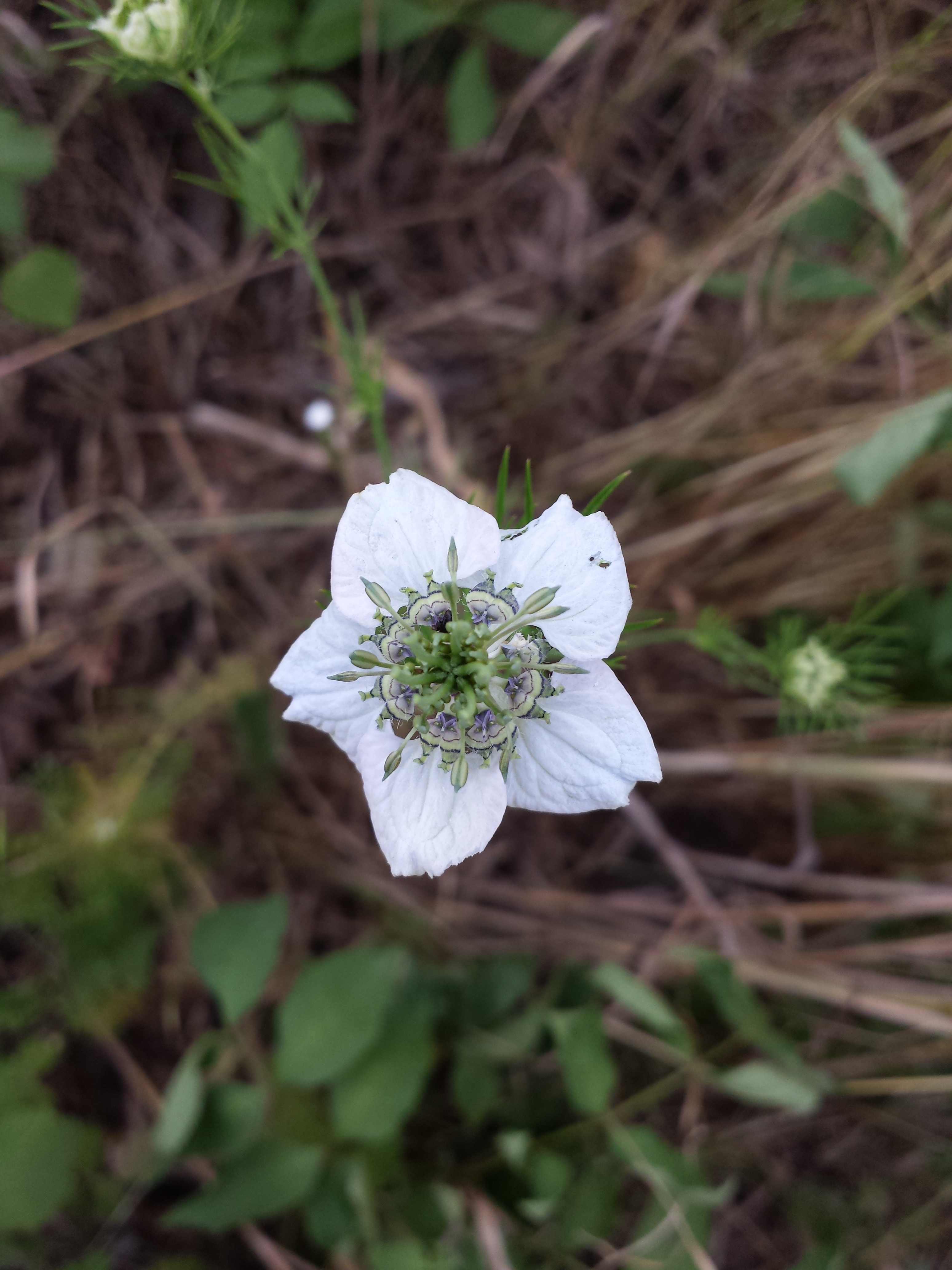 Flower Taxon: Nigella arvensis (sensu Fischer et al. EfÖLS 2008 ISBN 978-3-85474-187-9; det. M. A. Fischer 2014-06-14) Location: near nature reserve Šibeničník near Mikulov, Jihomoravský kraj, Czech Republic - ca. 200 m a.s.l. Habitat: fallow land